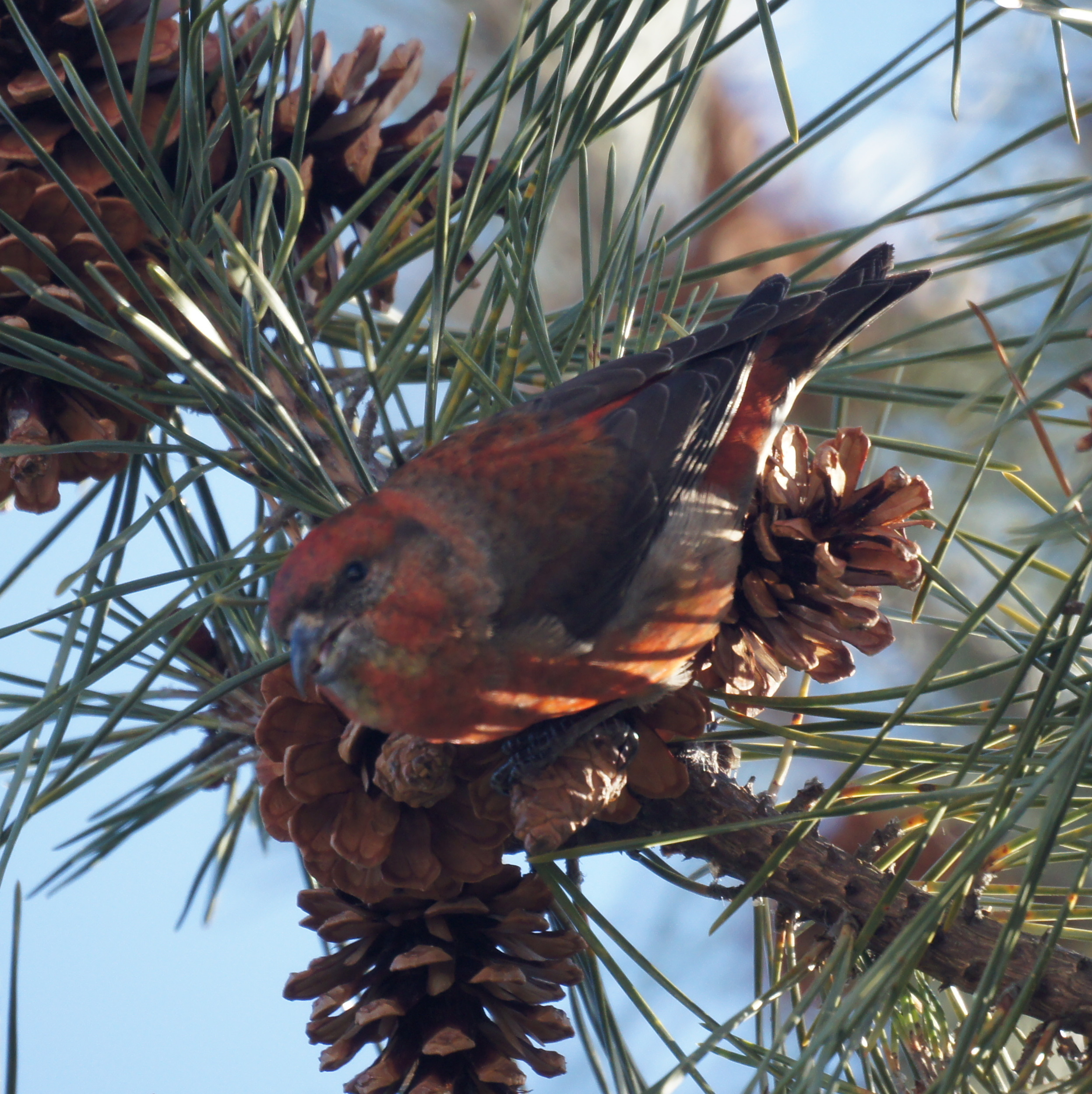 Red Crossbill